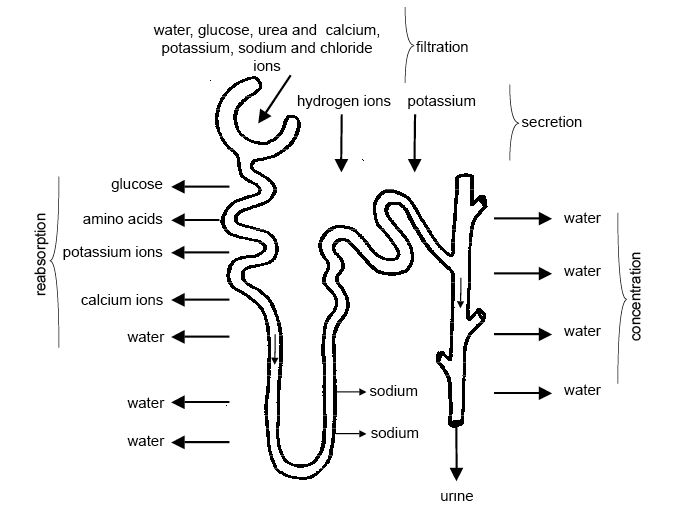 By Ruth Lawson. Otago Polytechnic.